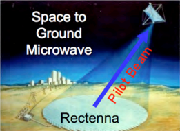 Diagram illustrating the operation of a solar power satellite, a satellite that would harvest solar energy and transmit it to Earth as a beam of microwaves, where it would be received and converted to electric power. The satellite would have a large area of W:solar cells, to convert sunlight to electricity. This would be converted to microwaves by high frequency vacuum tubes and beamed down to Earth by a phased array antenna, where it would be received by a rectenna array several kilometers square. A "pilot beam" of light from a laser would keep the phased array aimed at the rectenna. The rectenna would convert the microwaves into DC electric power, which would be converted to AC power and added to the electric power grid. The advantage of the solar power satellite, invented in the 1960s by Peter Glaser, over ground-based solar cells is that it is never "night" or cloudy in space so the satellite could produce power 24 hours a day.